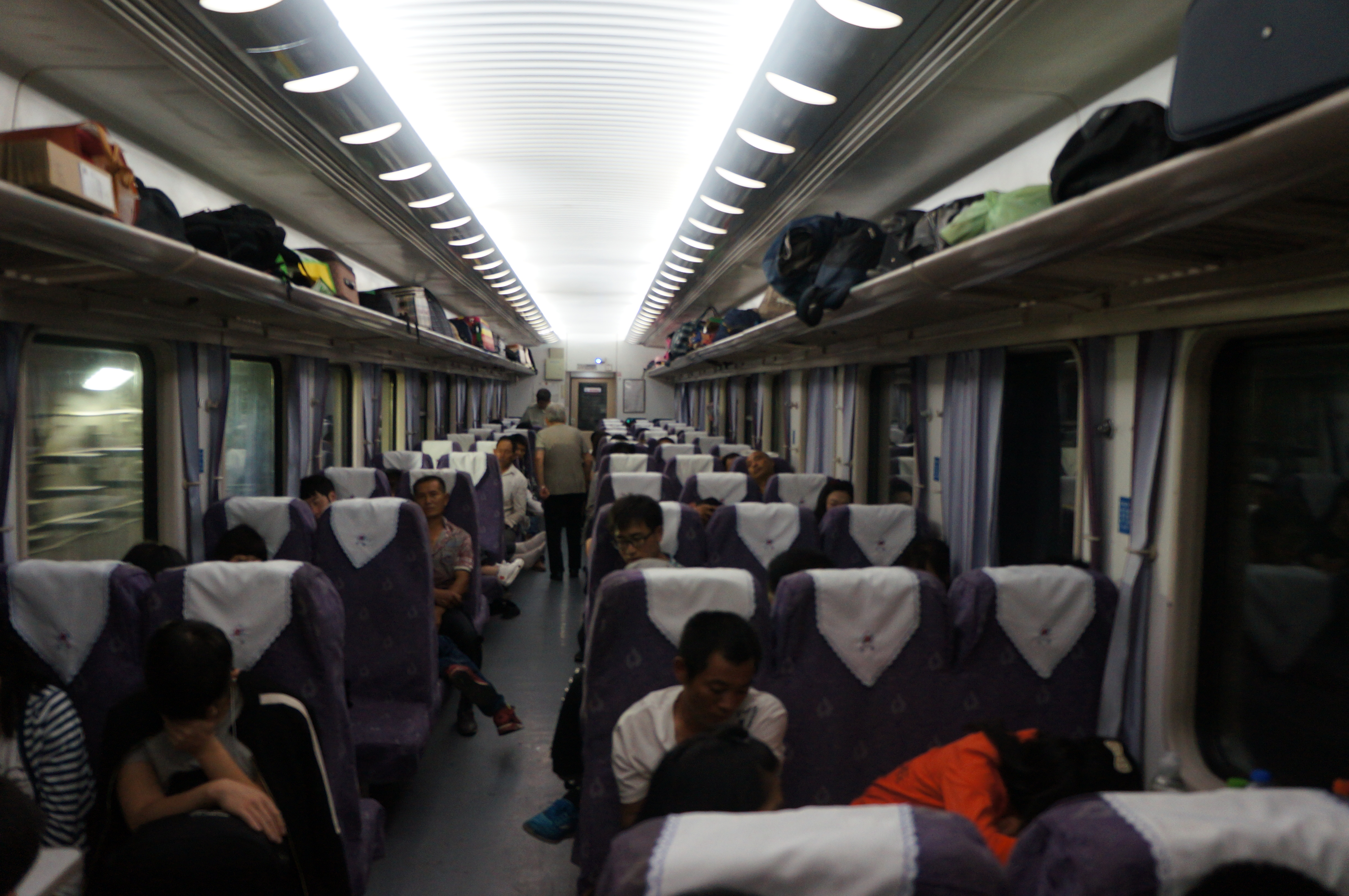 201606 K7752 runs inside the Beijing underground tunnel